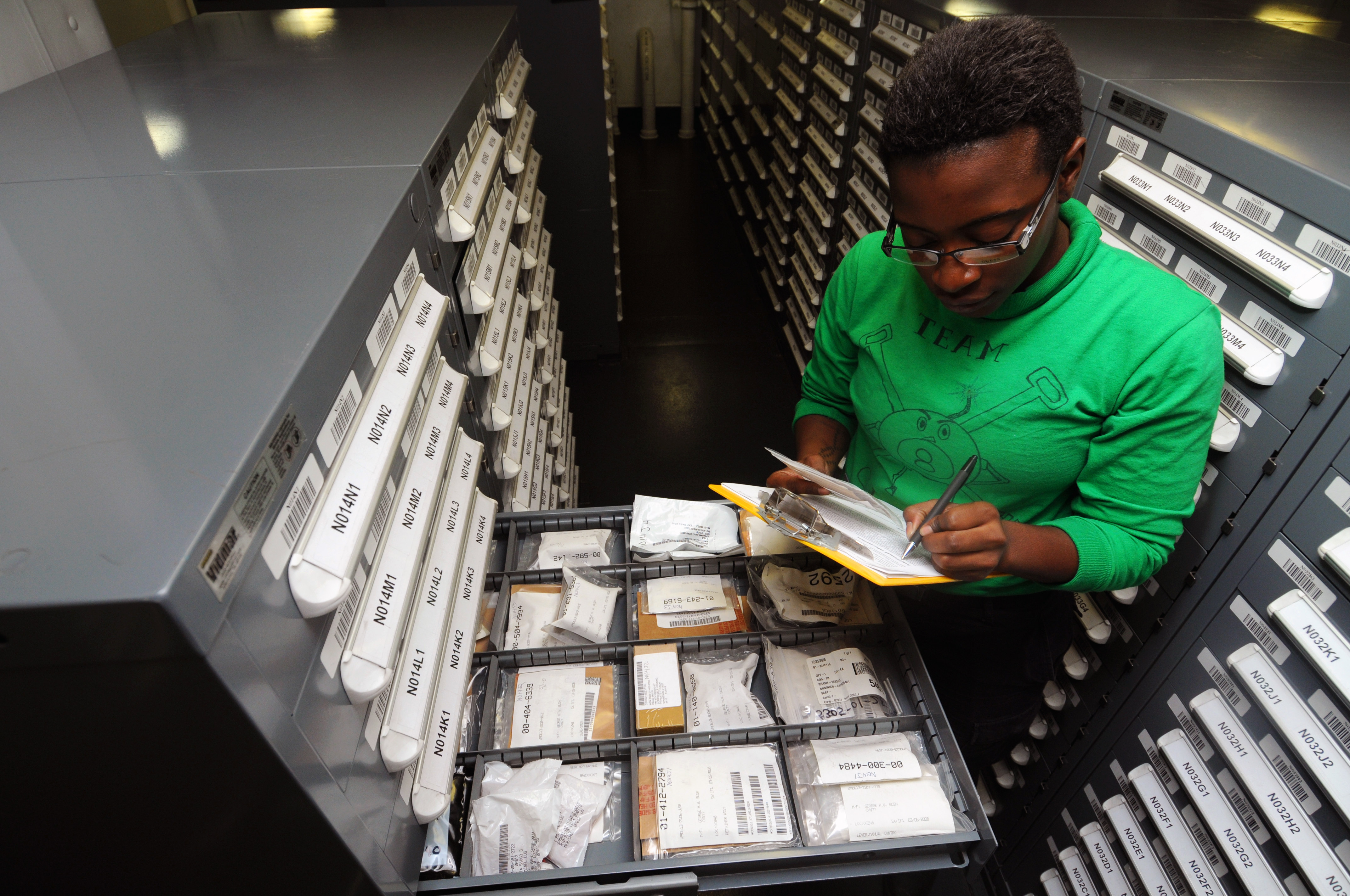 ARABIAN GULF (Oct. 20, 2011) Logistics Specialist Seaman Krystal K. Weed inventories supplies in a storeroom aboard the aircraft carrier USS George H.W. Bush (CVN 77). George H.W. Bush is deployed to the U.S. 5th Fleet area of responsibility on its first operational deployment conducting maritime security operations and support missions as part of Operations Enduring Freedom and New Dawn. (U.S. Navy photo by Mass Communication Specialist Seaman Jessica Echerri/Released) 111020-N-JD217-003